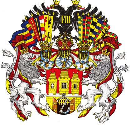 Coat of arms of Prague in Austria-Hungarian Empire.